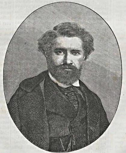 Portrait of Vince Adler